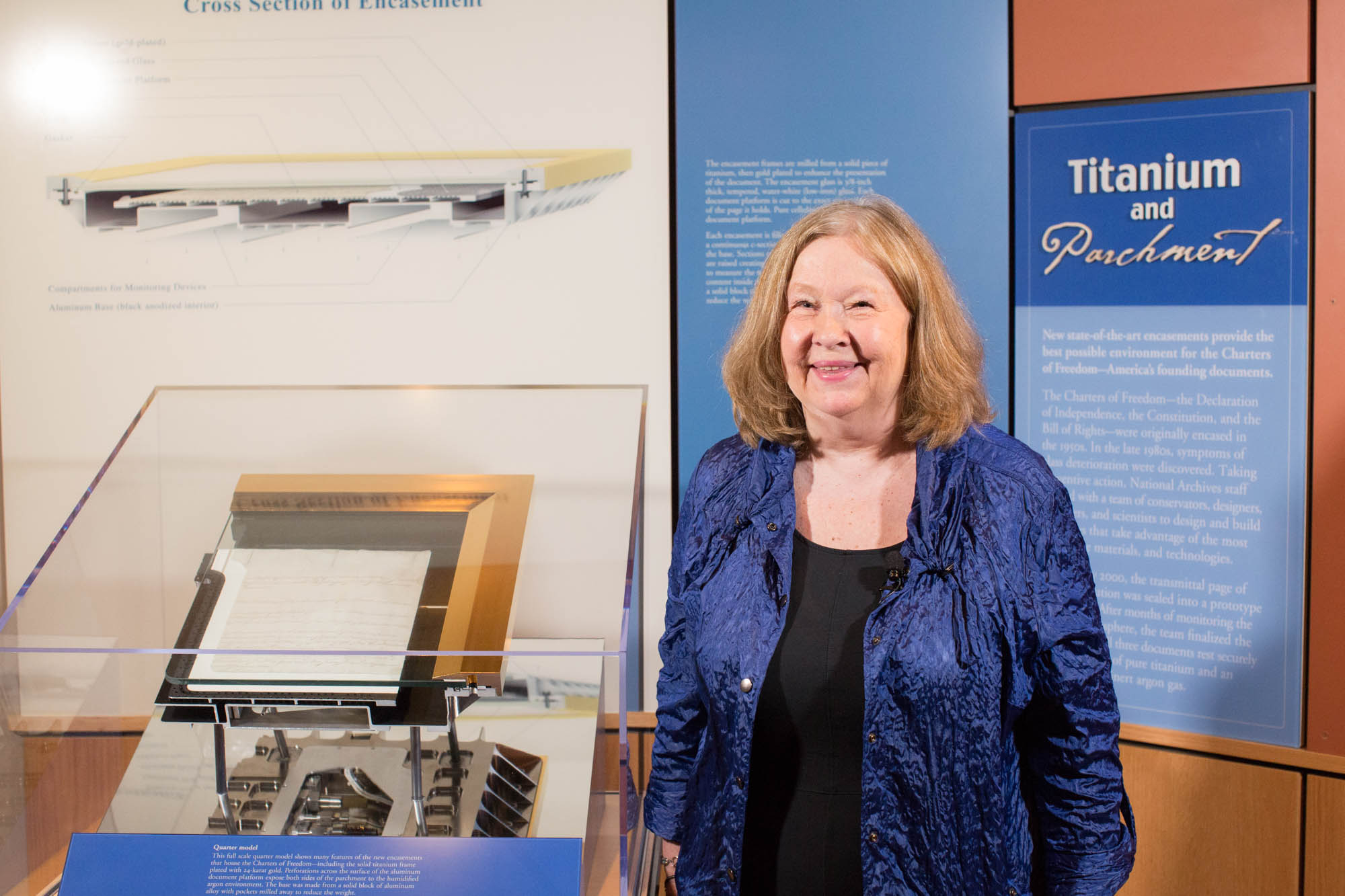 Mary Lynn Ritzenthaler, document conservation division director and last person to have touched the Declaration of Independence, is interviewed in the Public Vaults of the National Archives in Washington, DC, on June 27, 2016. NARA photo by Jeff Reed.